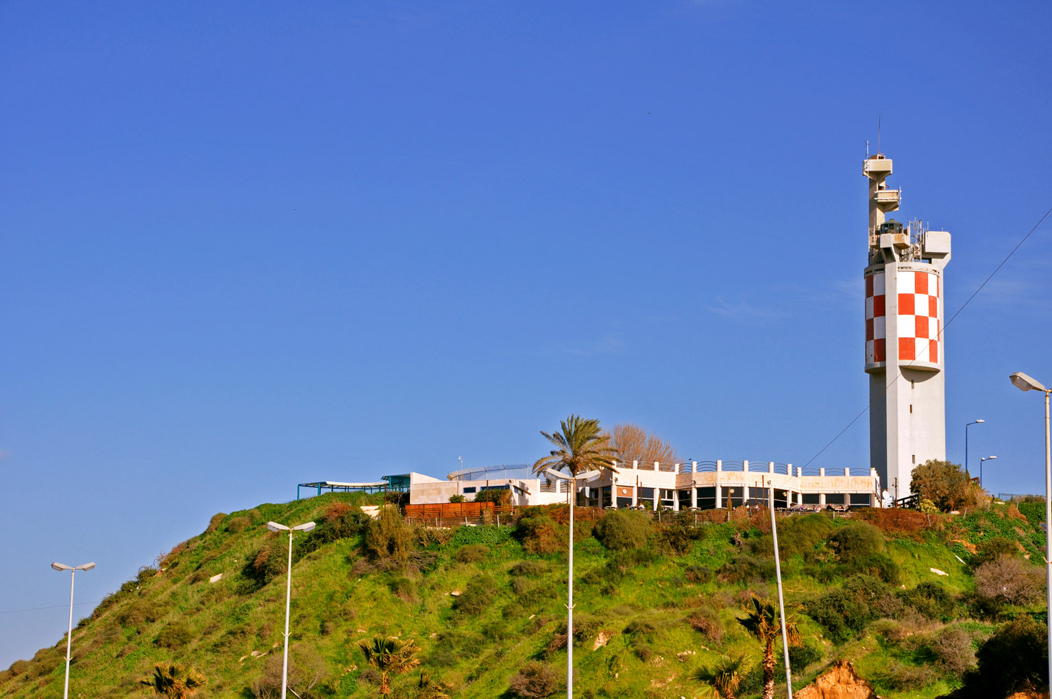 Water Tower in Ashdot